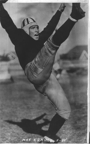 Max Krause punting for Gonzaga Univ. Bulldogs